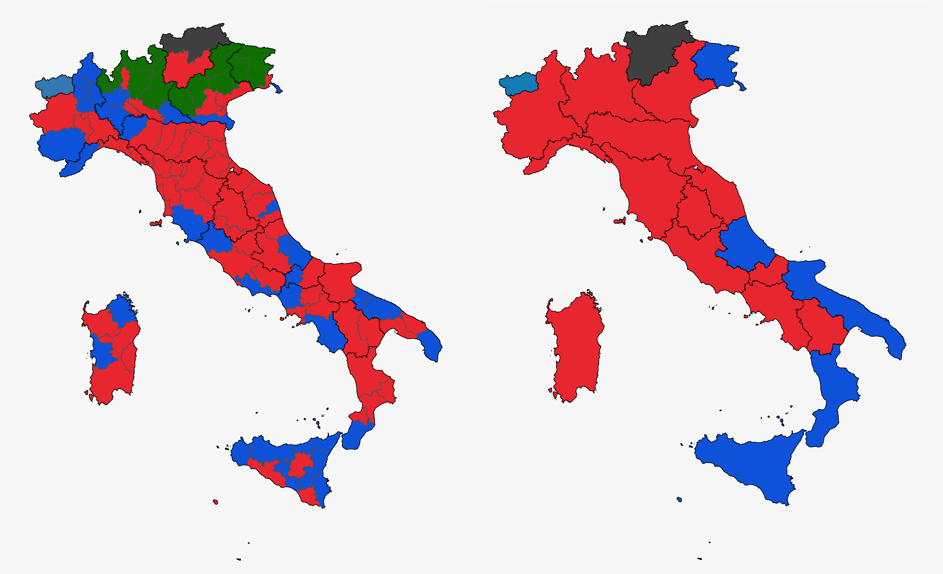 Election maps of 1996 Italian general election